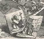 Detail from Battle of the Pictures showing Morning being stabbed by St Francis